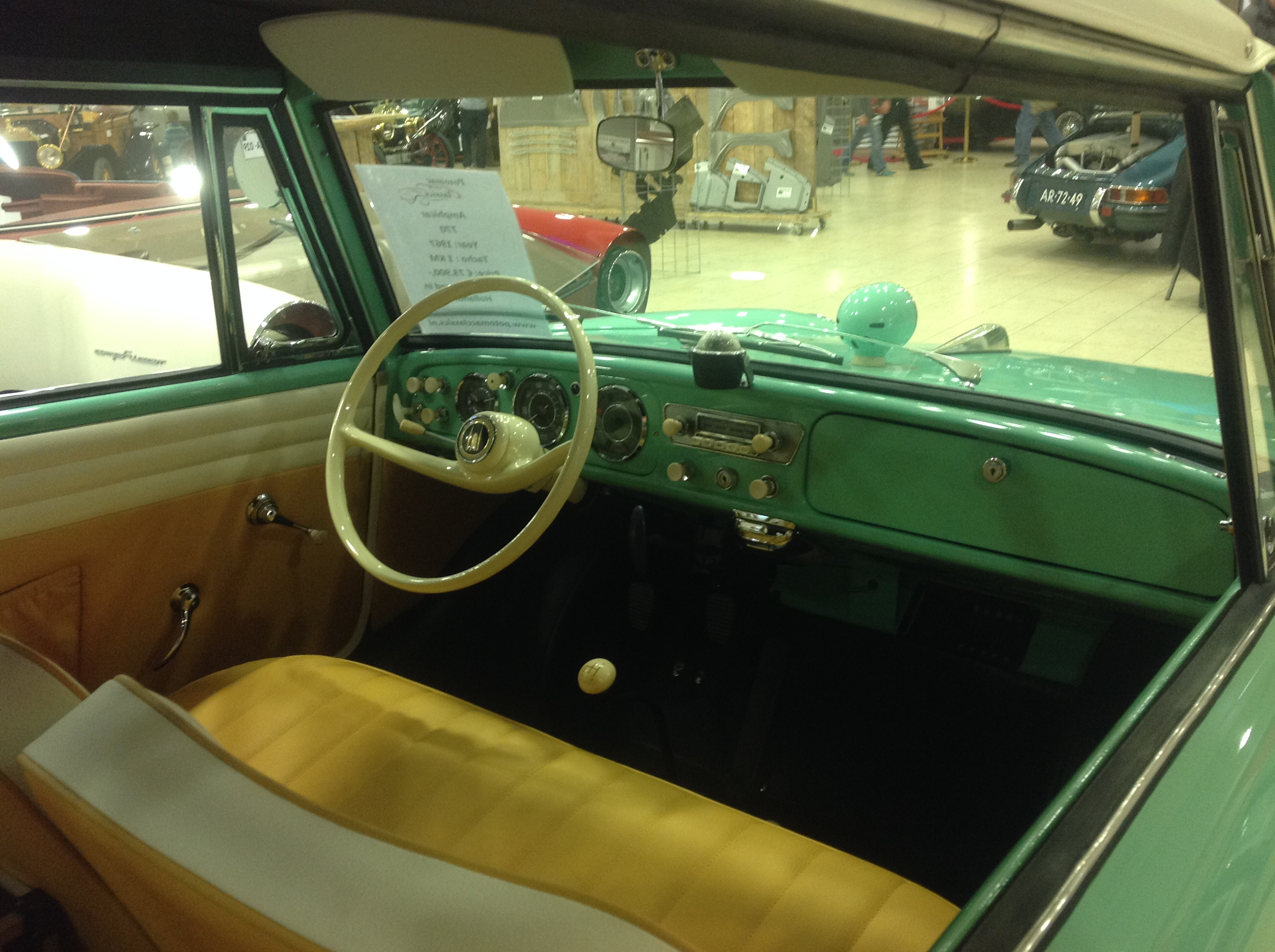 Amphicar 770